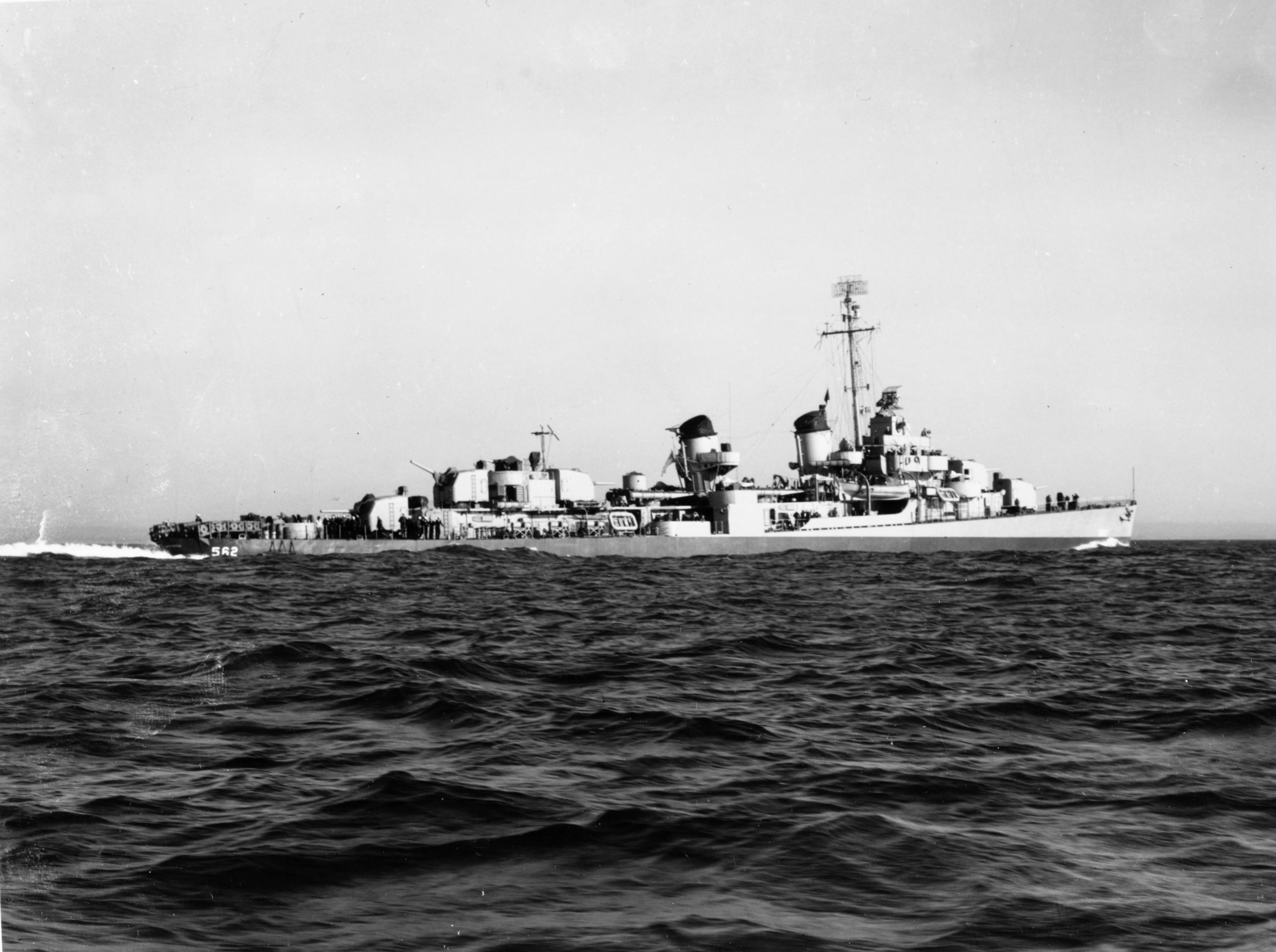 The U.S. Navy destroyer USS Robinson (DD-562) steaming out of San Diego harbor, California (USA), en route to the U.S. East Coast, 12 January 1946.